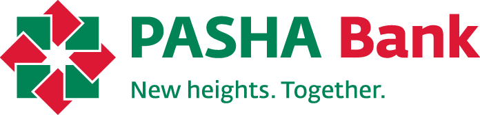 PASHA Bank Logo